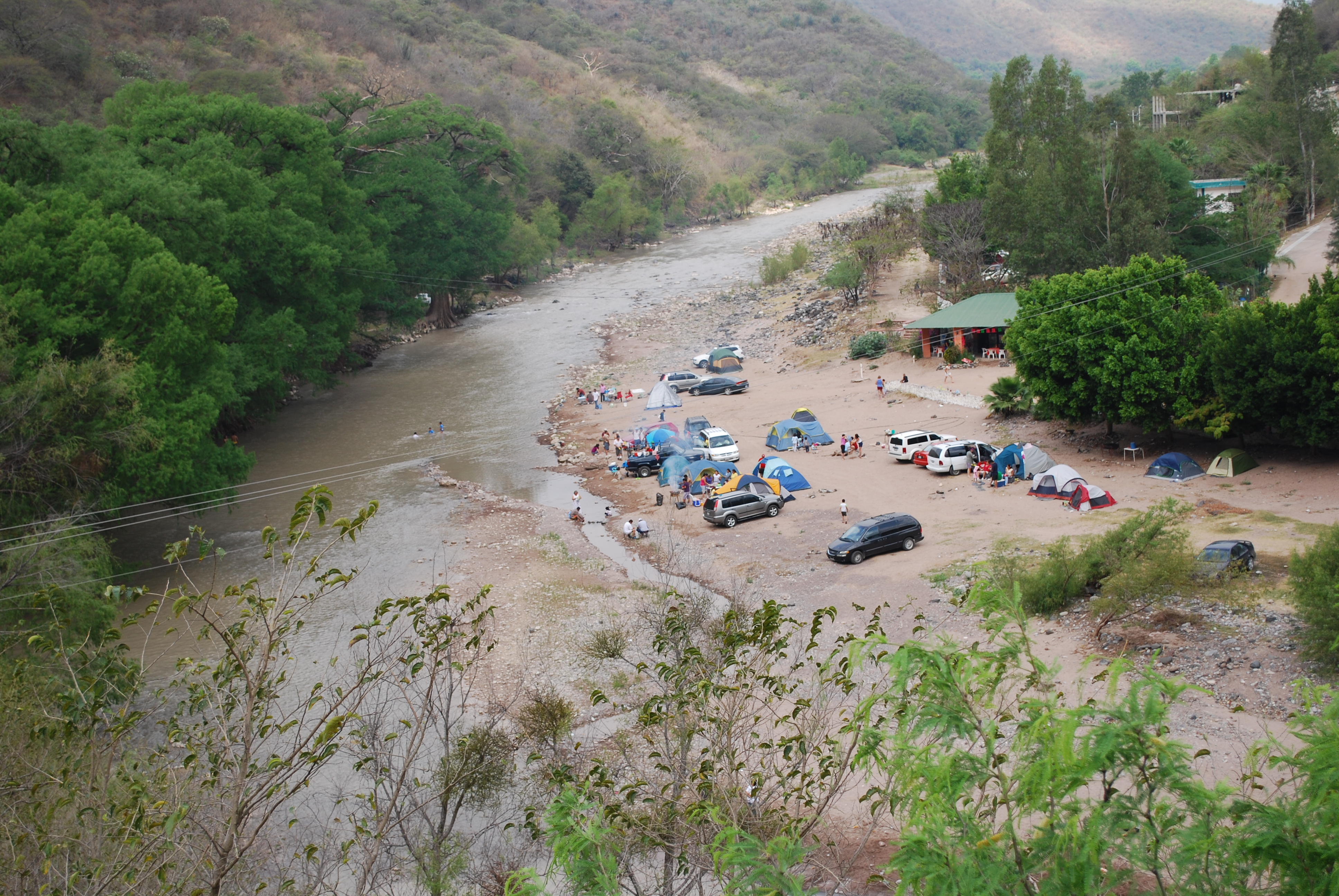 campground at Ayutla in Arroyo Seco, Querétaro, Mexico